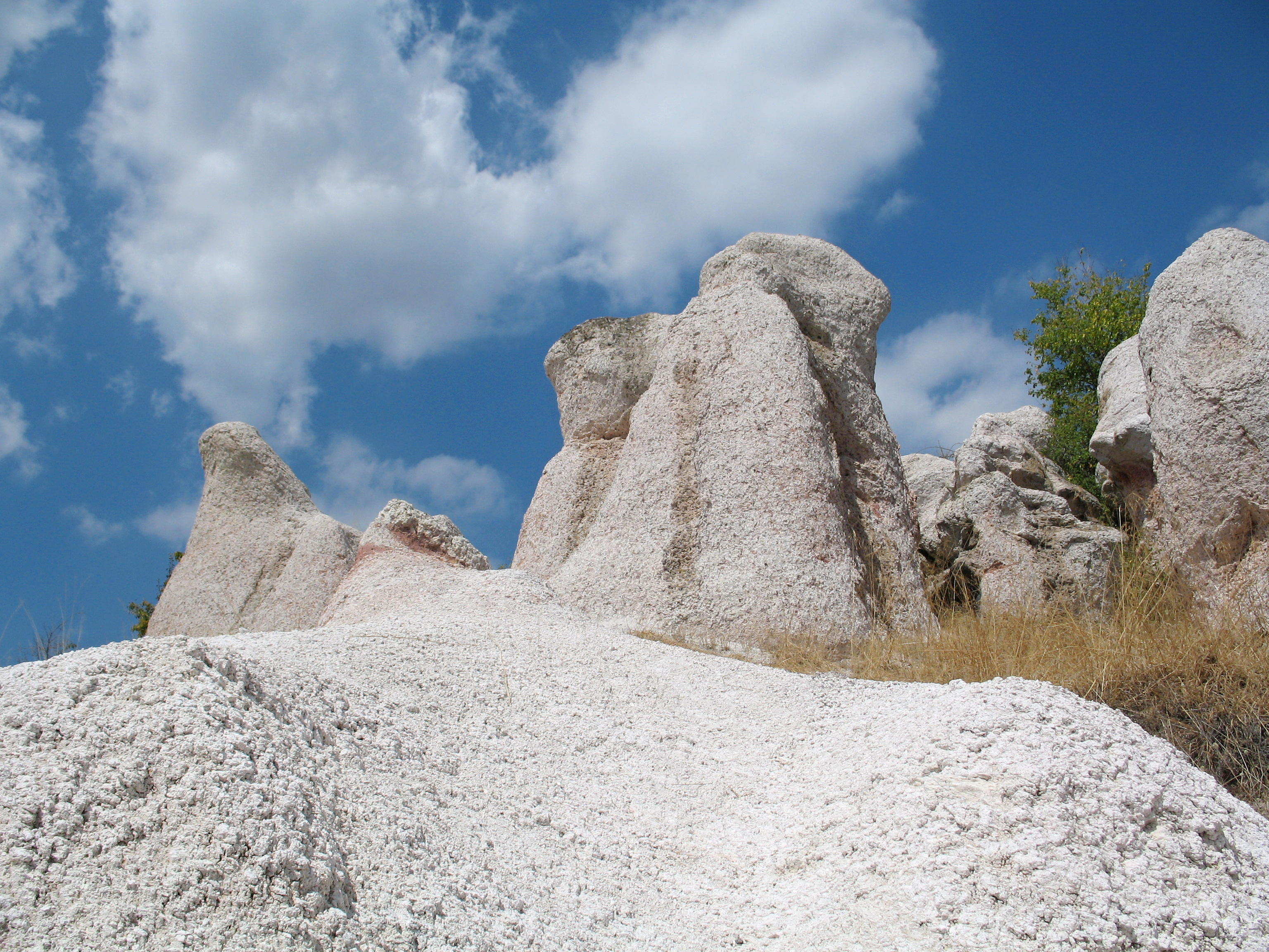 "Kardzhali pyramids" near Zimzelen village, Kardzhali Municipality, southern Bulgaria